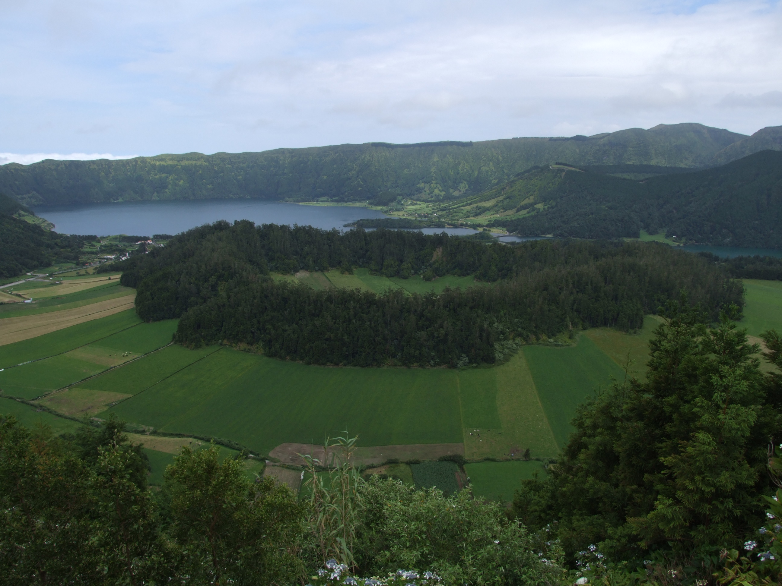 São Miguel, Sao-Miguel, Azores, Portugal